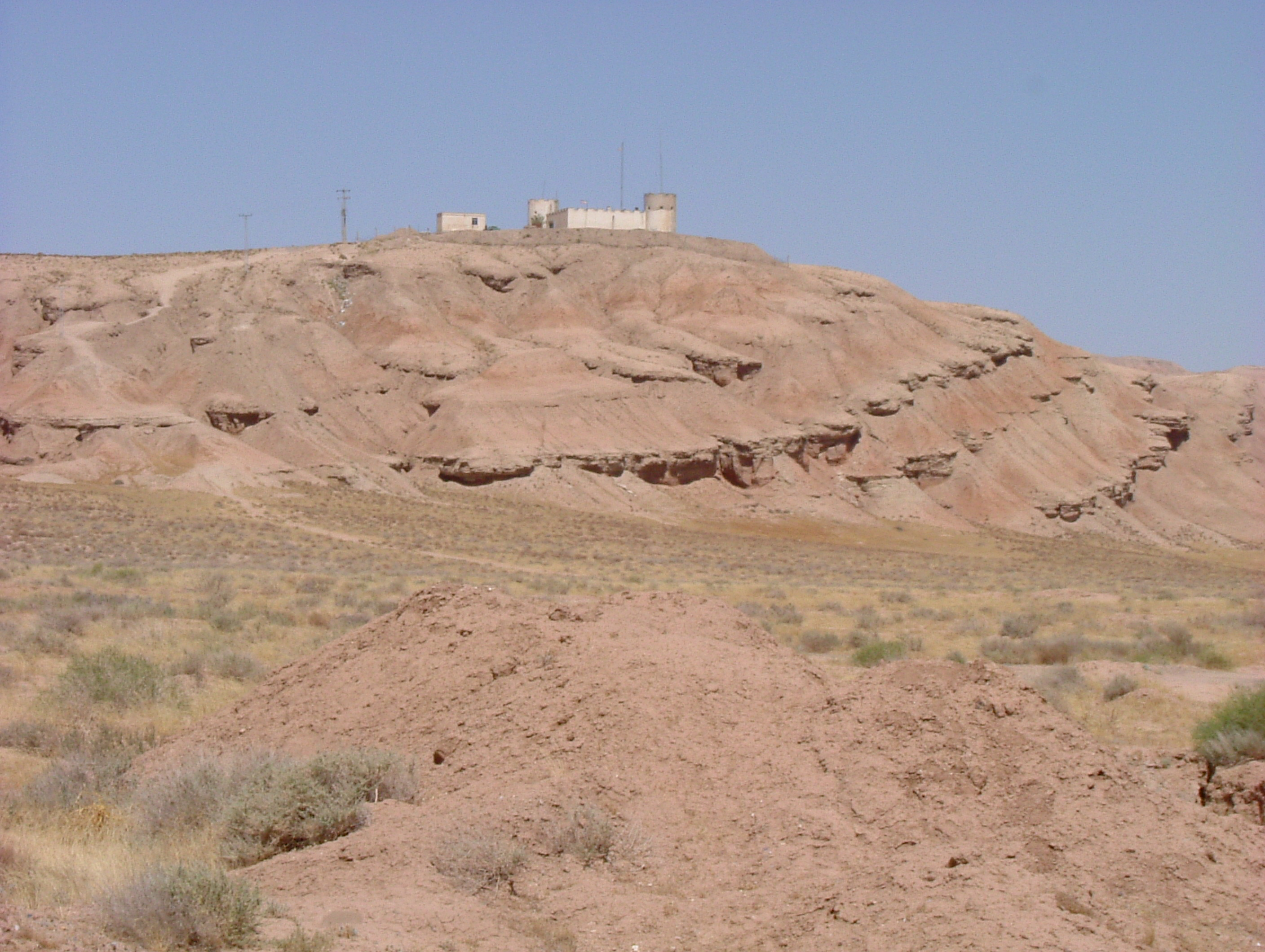 small fort manned by Iranian border police